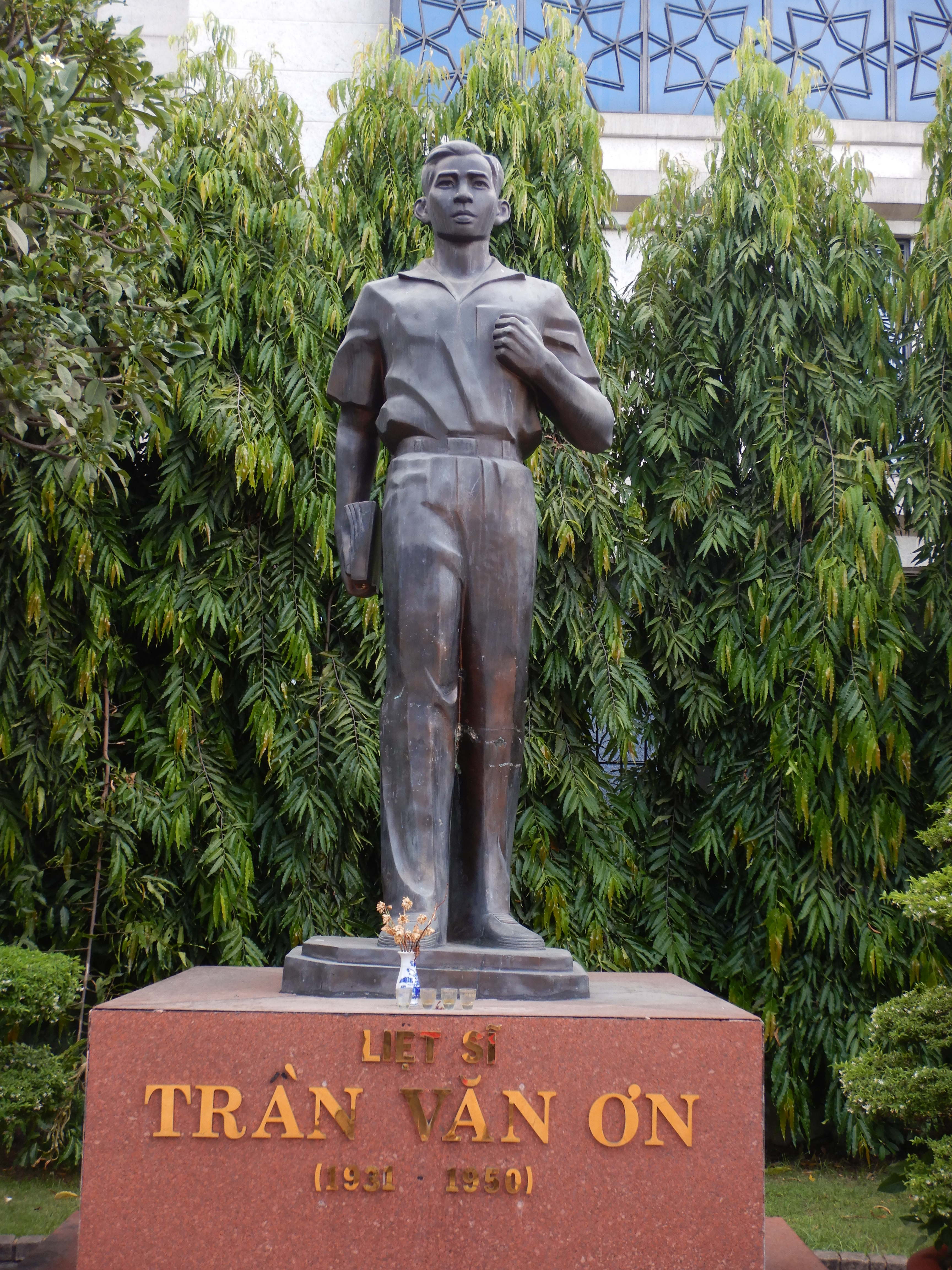 Statue of Trần Văn Ơn at Công viên Lý Tự Trọng, Ho Chi Minh City, 10°46'36.174"N, 106°41'57.817"E.